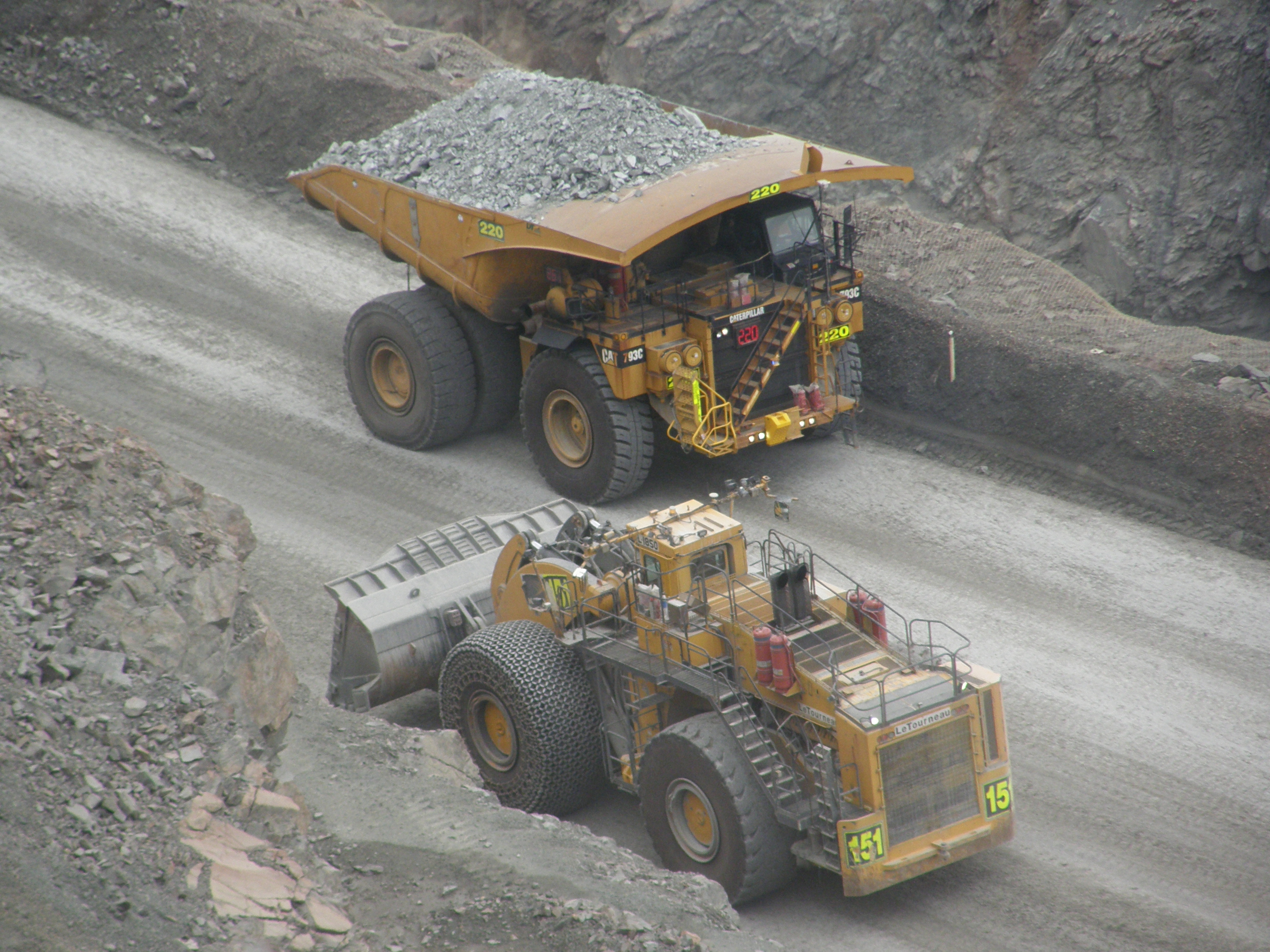 Cat 793C haul truck passing LeTourneau fron loader within the Kalgoorlie Super Pit